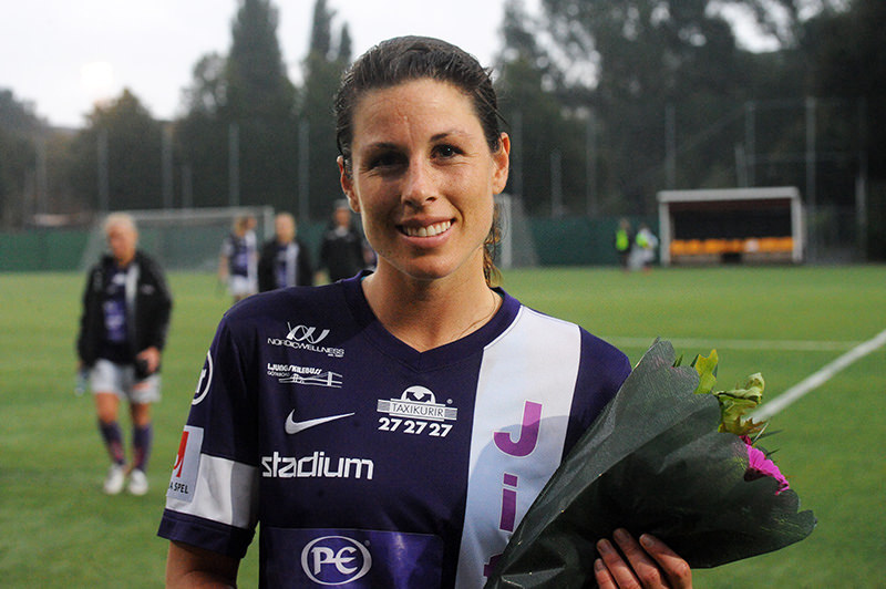 Jitex BK's Canadian defender Emily Zurrer after a 1-0 defeat at AIK, 21 September 2014